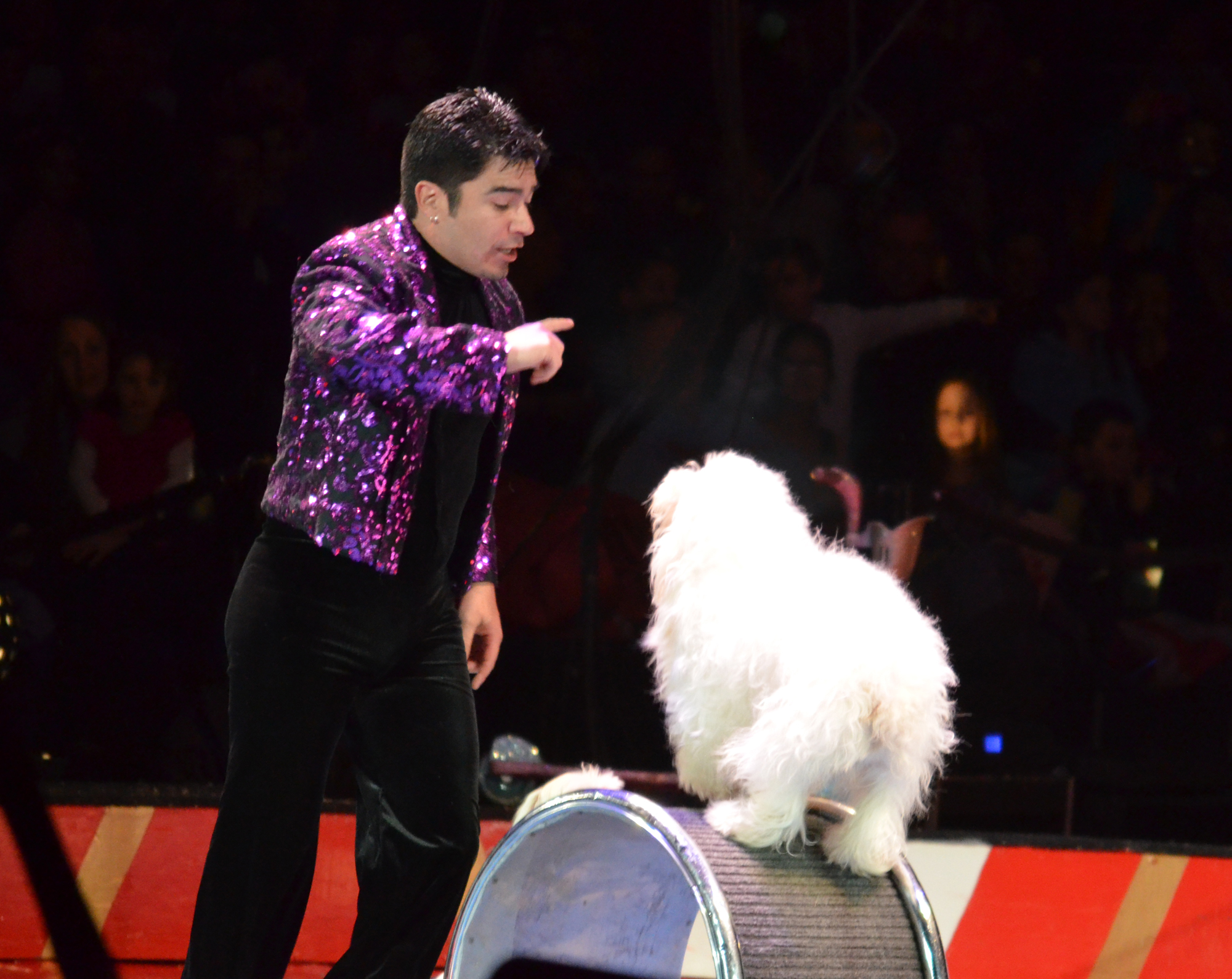 A dog balances on a wheel during the Olate Dogs act at the Royal Hanneford Circus. At the Westchester County Civic Center in Westchester, New York, February 16, 2013.